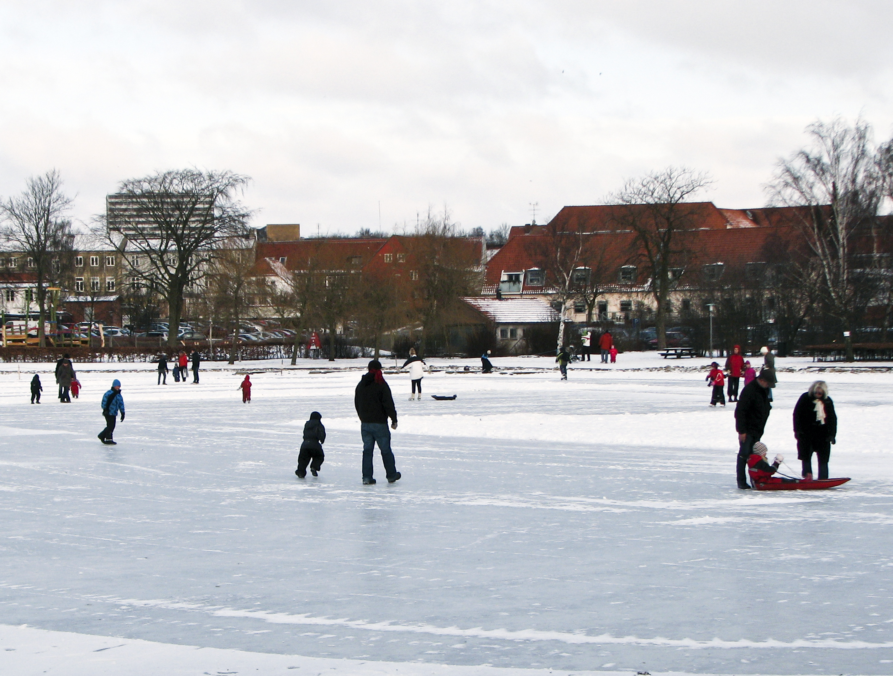 Life on Haderslev Dam (lake in Haderslev Denmark) young people are skaiting